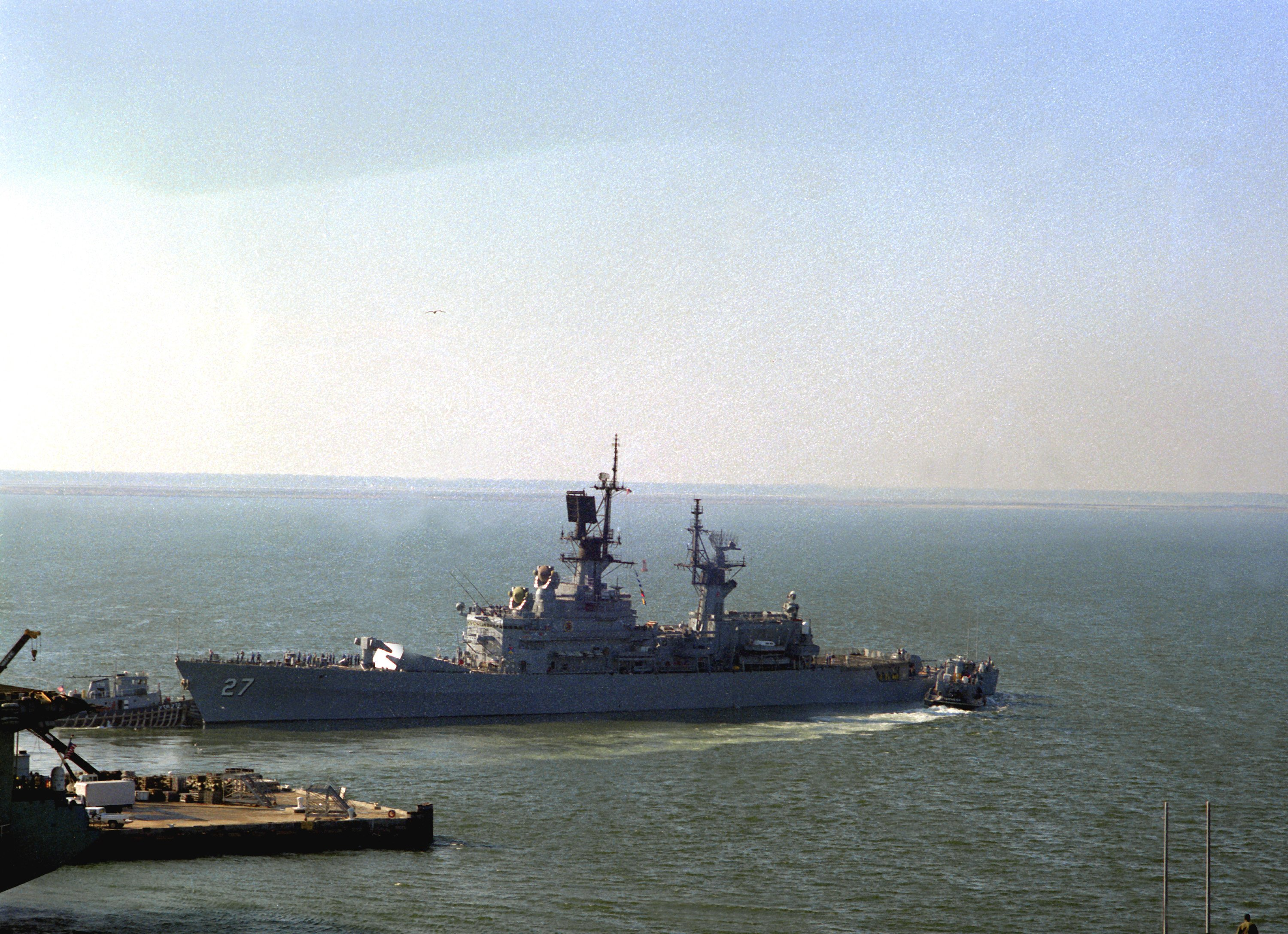 Harbor tugs manuever the U.S. Navy guided missile cruiser USS Josephus Daniels (CG-27) away from the pier as the ship prepares to depart from Naval Station Norfolk, Virginia (USA), on 29 November 1989.